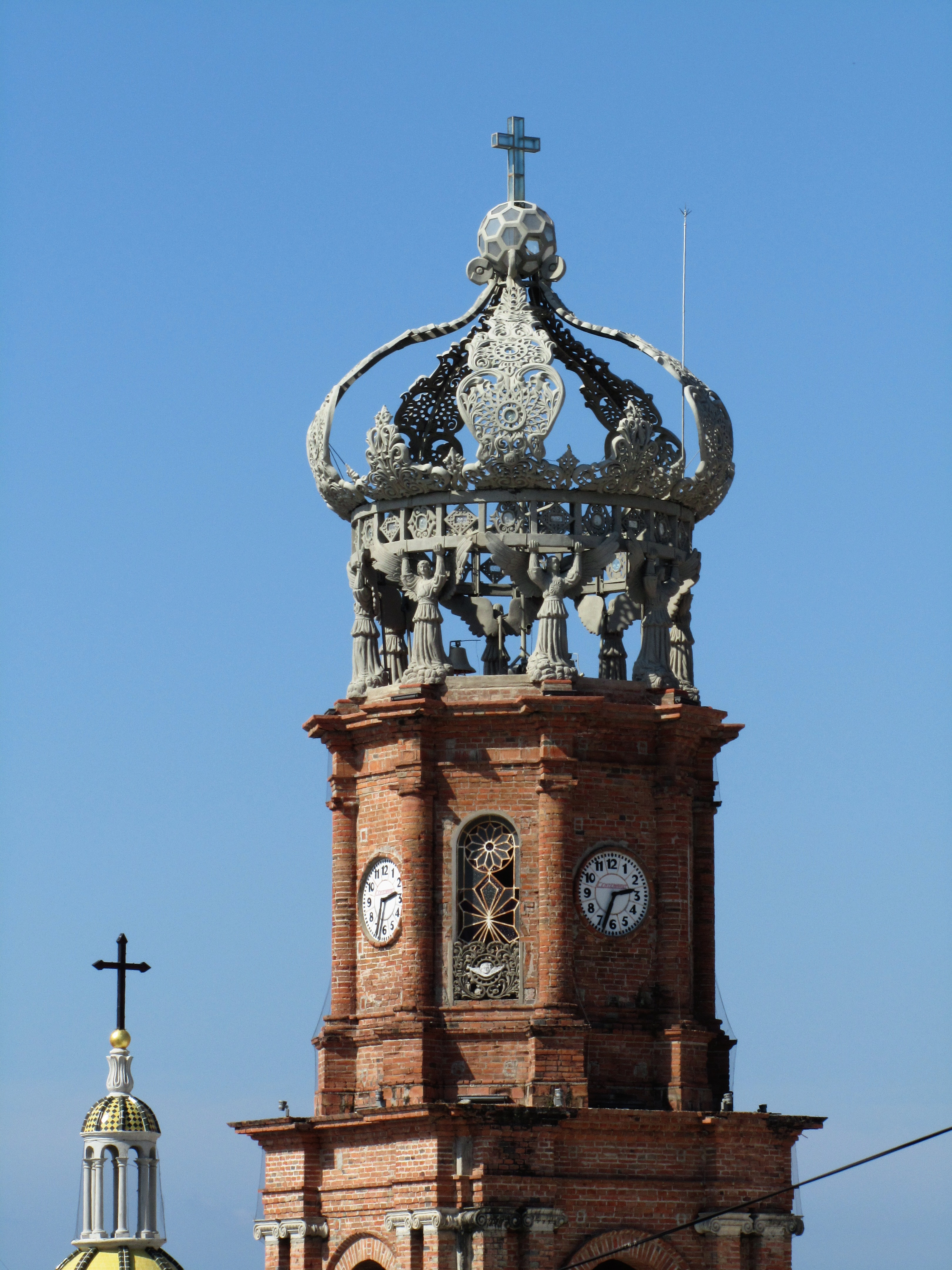 The Crown of Our Lady of Guadalupe Cathedral — Puerto Vallarta, Jalisco state, México. Author: Sculptor and painter Carlos Terres. 10.00 m in diameter and 15.50 m in height; sculpture in terroca (terres stone). The master sculptor and painter Carlos Terres made The Crown of Our Lady of Guadalupe basing his monumental sculpture in Nahuatl world Tecuntlanopeuh which means "that which has its origin at the peak of the boulders", alluding to the original name of the port, presently known as Puerto Vallarta. Symbolic elements of the sculpture are as follows. Eight angles wearing Marian symbols on their breast are holding the crown. The gems of the ring represent the 24 hours of the day. The five small palms represent the joyful mysteries of the Marian rosary. The five large palms represent the founding of Puerto Vallarta on December 12, 1851. Construction of the parish church began on April 15, 1883. The second phase of construction in 1915. The naming of the parish church in 1921. The borders of the sculpture are formed by a world of glass and a cross. Benediction by Bishop P. Ricardo Waty on October 12, 2009. Parish church of Our Lady of Guadalupe, Puerto Vallarta, Jal. Mexico.